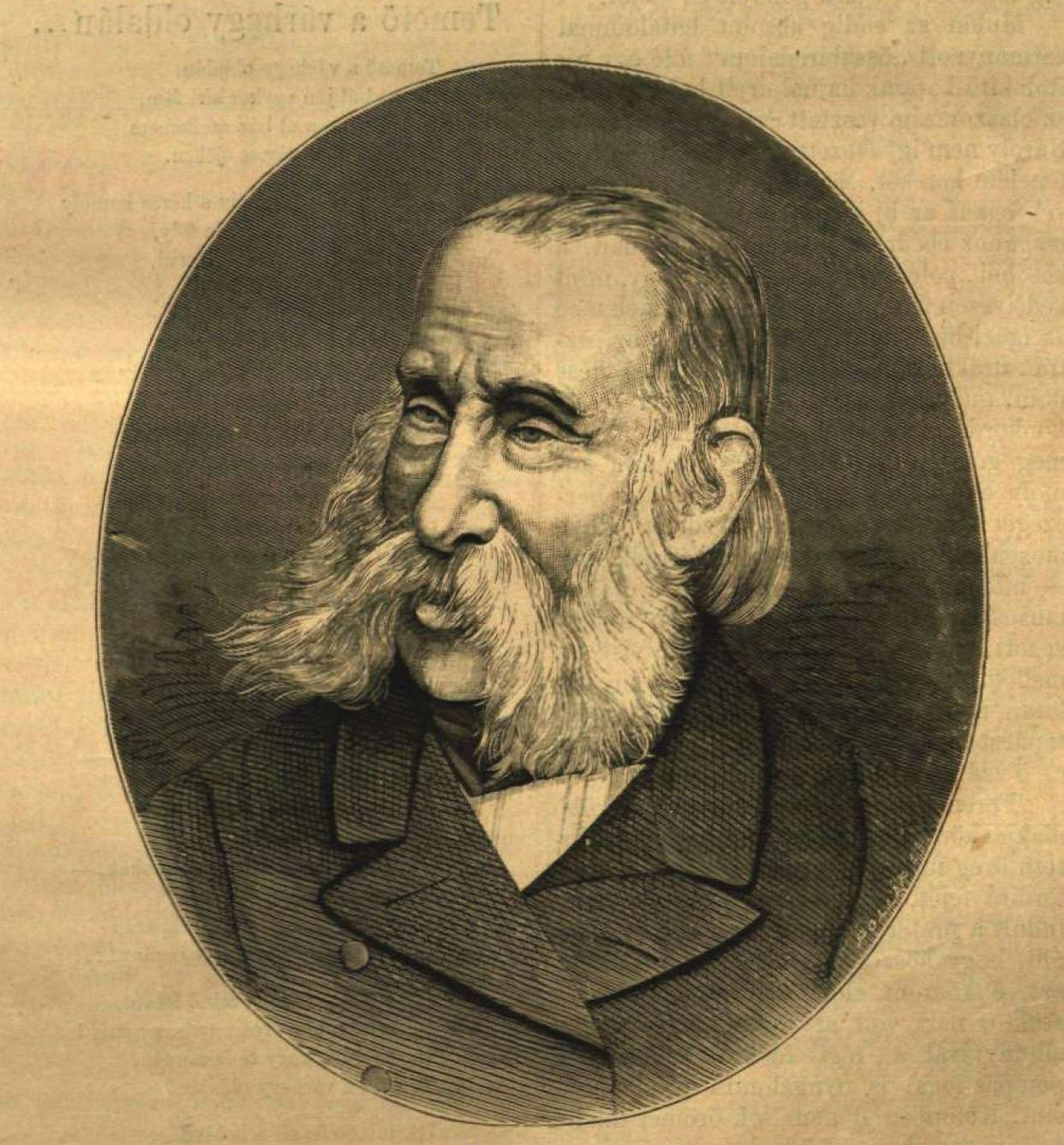 Archduke Franz Karl of Austria